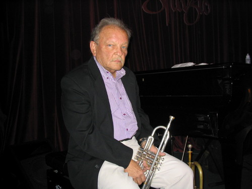 Jazz trumpet player.